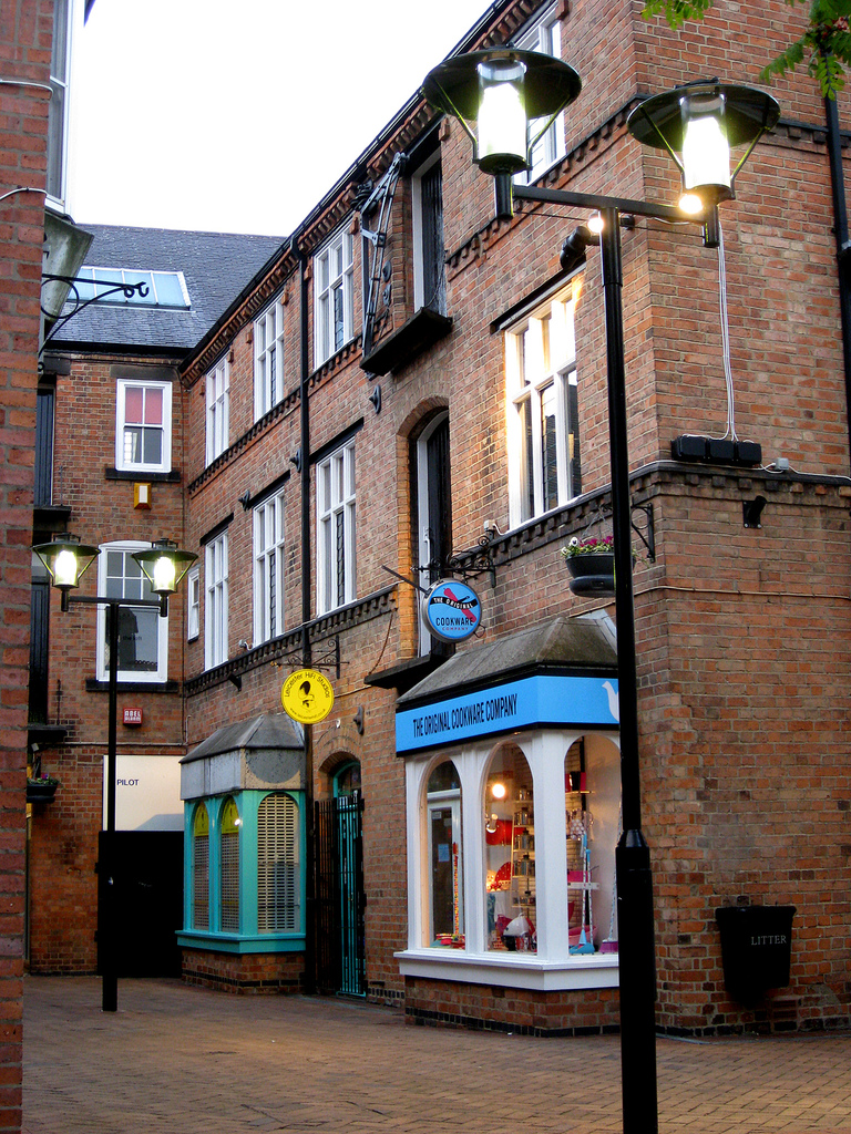 St. Martin Square and a nice small shop selling kitchen utensils